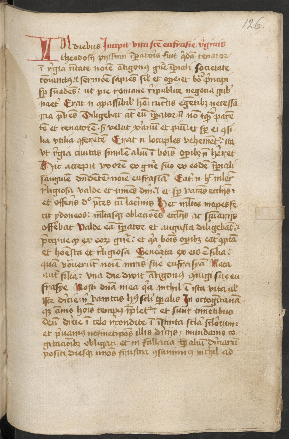 Ms.247, fol. 126r.